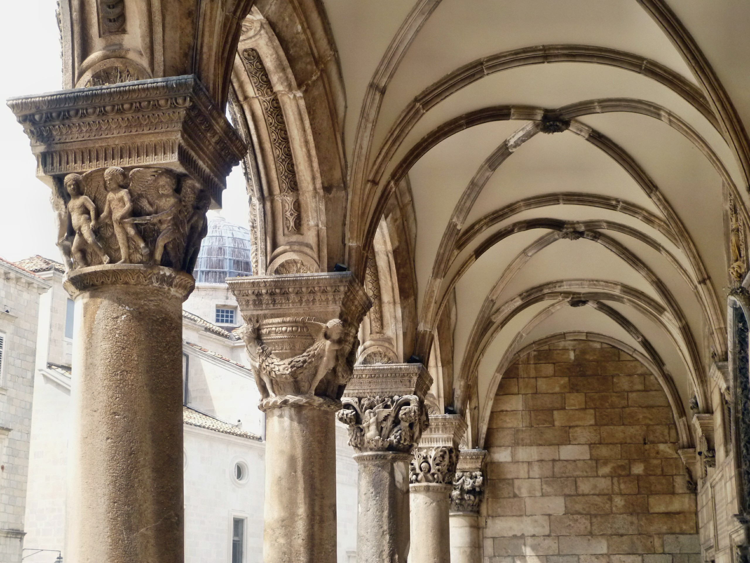 Capitals in front of the Rector's palace, Dubrovnik, Croatia